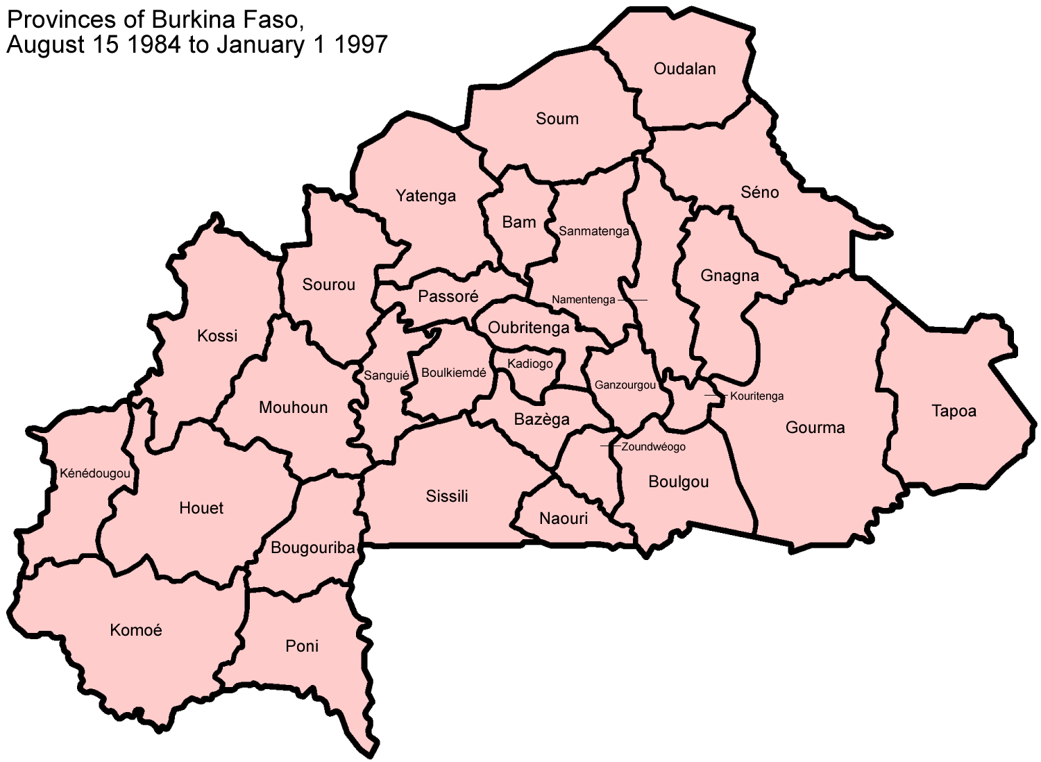 Map of the provinces of Burkina Faso as they were between 1984 and 1997. On August 15 1984, the ten departments were reorganized as thirty provinces. In January 1997, fifteen more provinces were split from these, giving us the map we have today. Made by User:Golbez.